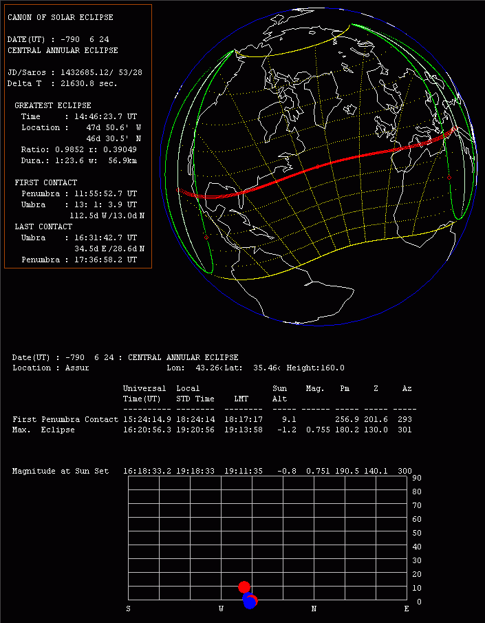 Assyrian eclipse of Bur-Sagale: The image shows data of the solar eclipse just before sunset as observed from Assur (35°27'N, 43°16'E = 35.46°N, 43.26°E) on June 24, 791 BC (year -790 in astronomy)